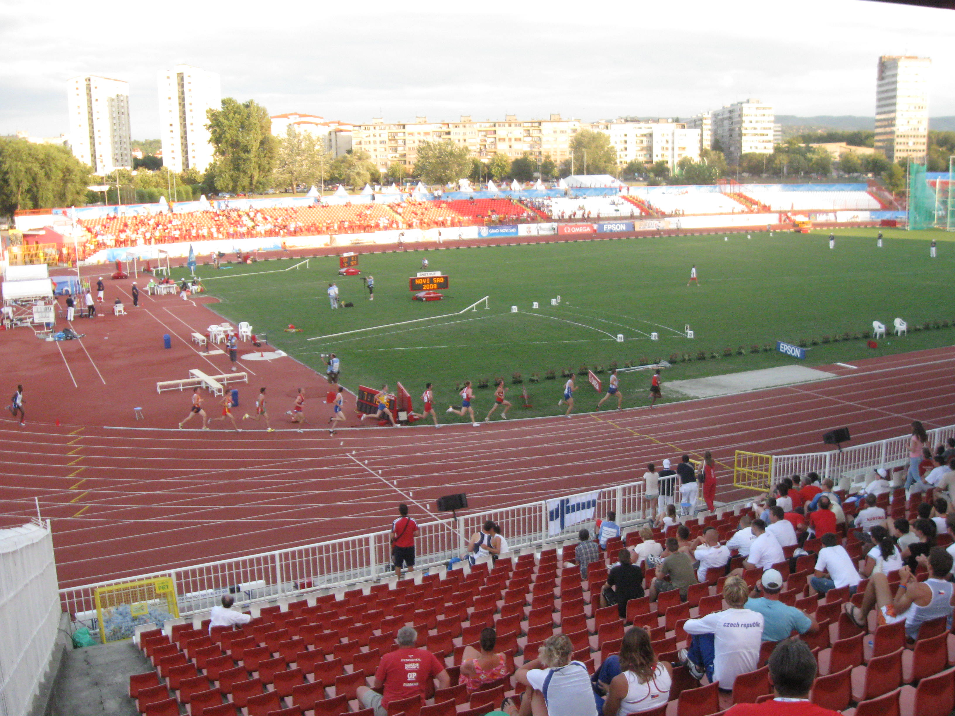 2009 European Athletics Junior Championships in Novi Sad